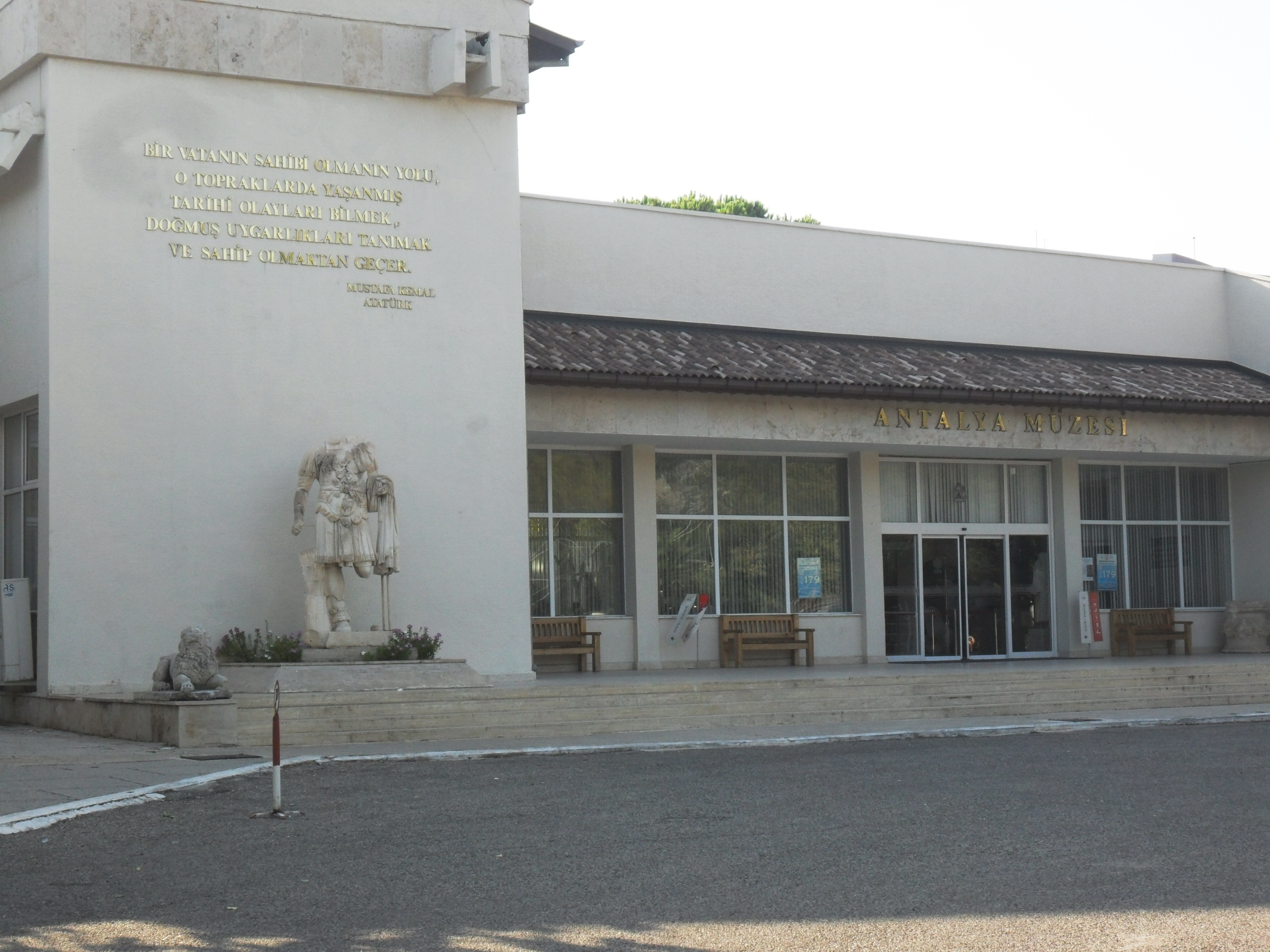 Antalya Museum